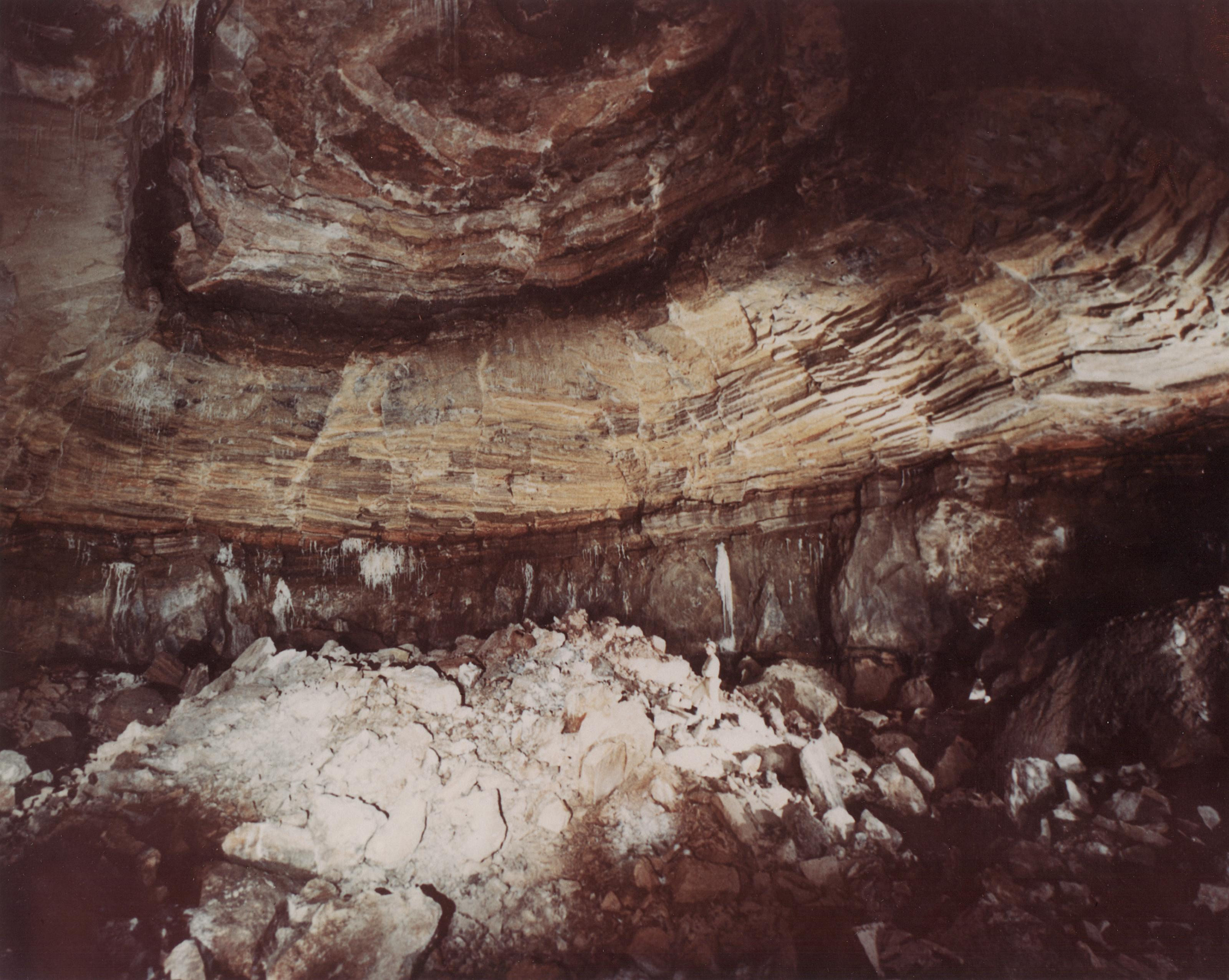 View toward the top of the salt dome cavity created by the Gnome underground nuclear test. Note the stalactites. A man wearing a hard hat is standing on the rubble pile, just to the right of center in the photo. Gnome was conducted on December 10, 1961 as part of Operation Plowshare. For more information or additional images, please contact 202-586-5251.